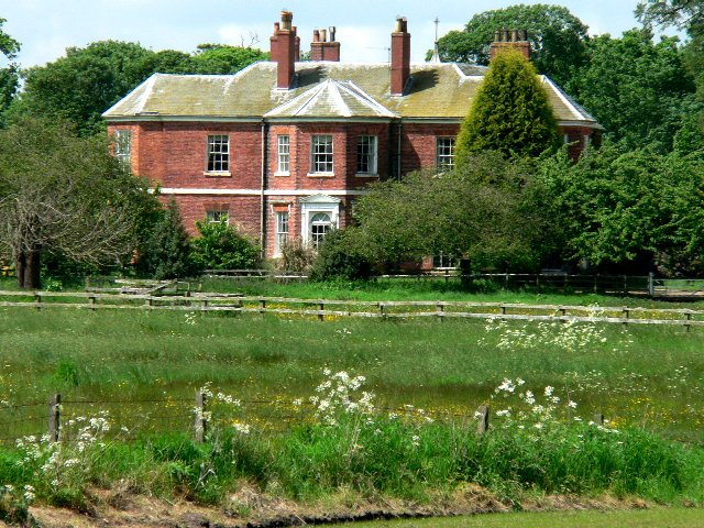 Melbourne Hall, Melbourne, East Riding of Yorkshire, England.